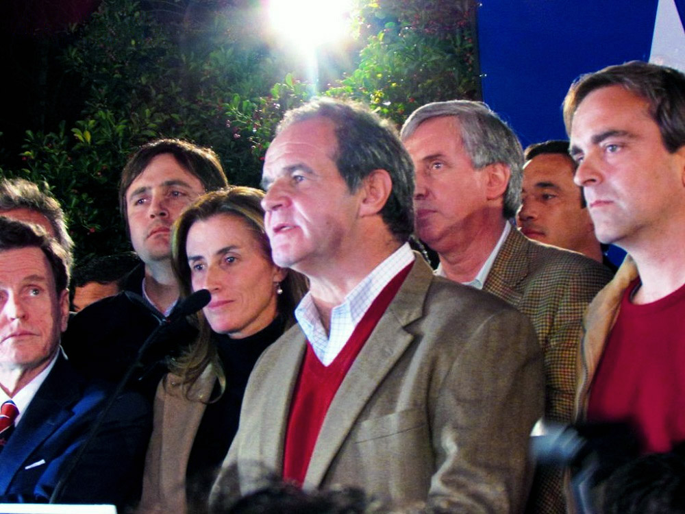 Andrés Allamand concedes defeat in the Alianza primary. Photo by Jared Lucky / The Santiago Times.